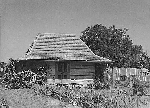 'Category:Melrose Plantation — Natchitoches Parish, Louisiana. Old wash house built by "mulattoes," now a part of the John Henry cotton plantation.